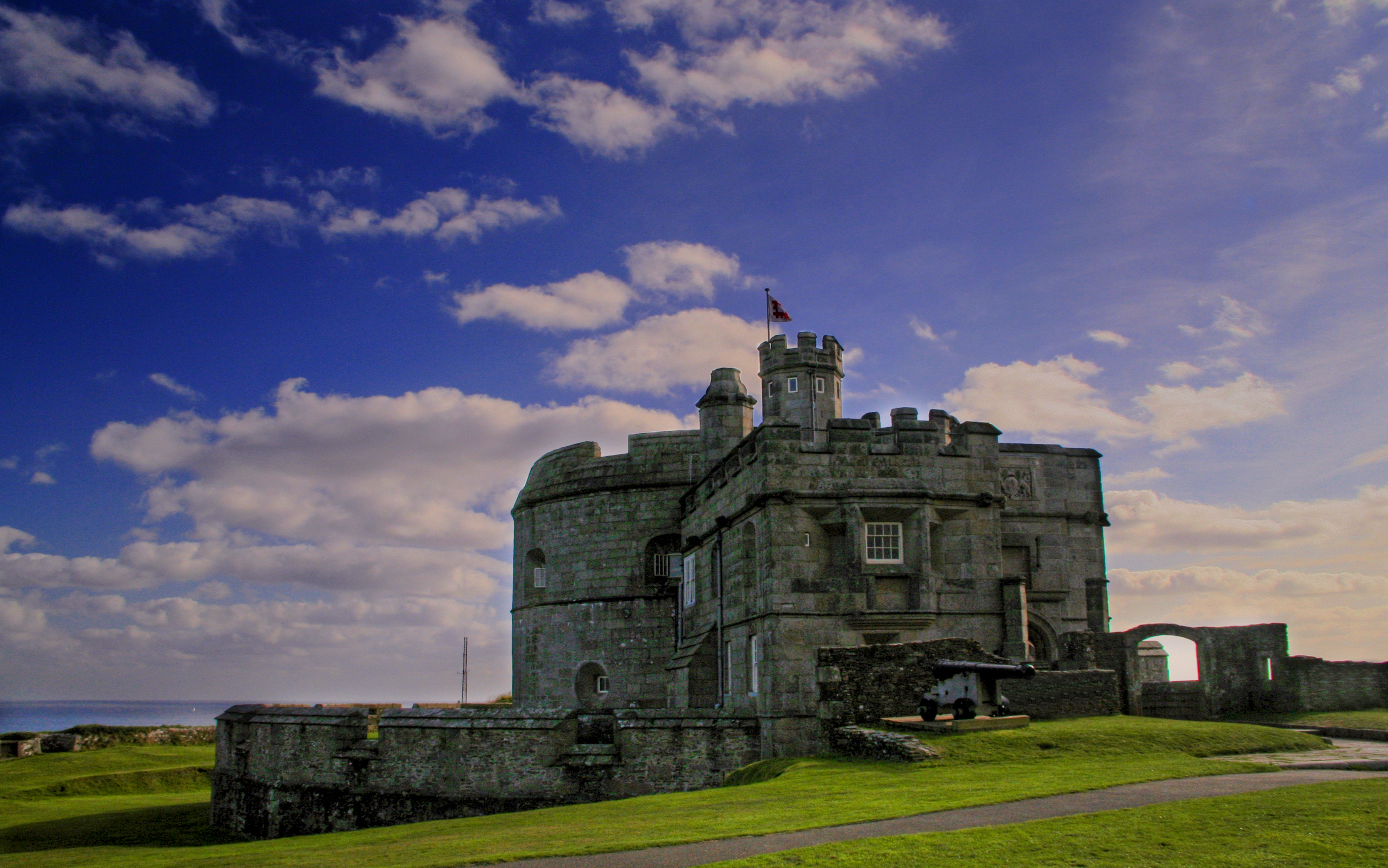 Pendennis Castle, Falmouth Cornwall